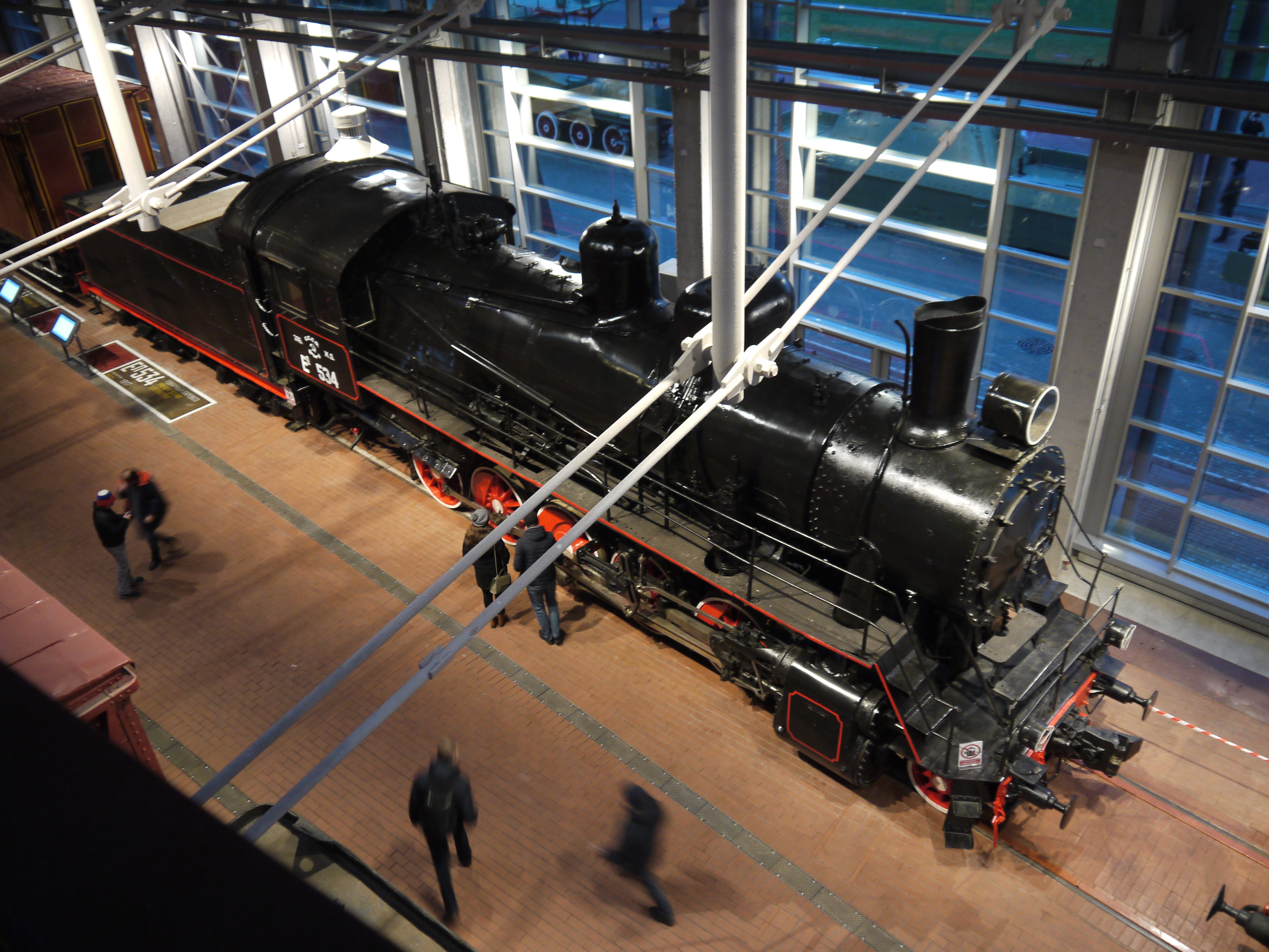 Locomotive Yel 534 at the Russian Railway Museum, adjacent Baltiysky Railway station, Saint Petersburg The weight of the locomotive in working condition: without tender 91.2 t including tender 140 t Constructional speed 70 km / h Maximum power on the rim of the wheel is 1600 hp. She was built by the American Locomotive Building Company (ALCO) in Schenectady in 1917. Russian Railway Museum Грузовой паровоз ЕЛ 534 Вес паровоза в рабочем состоянии: без тендера 91,2 т стендером 140 т Конструкционная скорость 70 км/ч Максимальная мощность на ободе колеса 1600 л.с. Построен Американской паровозостроительной компанией (АЛКО) в Скенектеди в 1917 г.